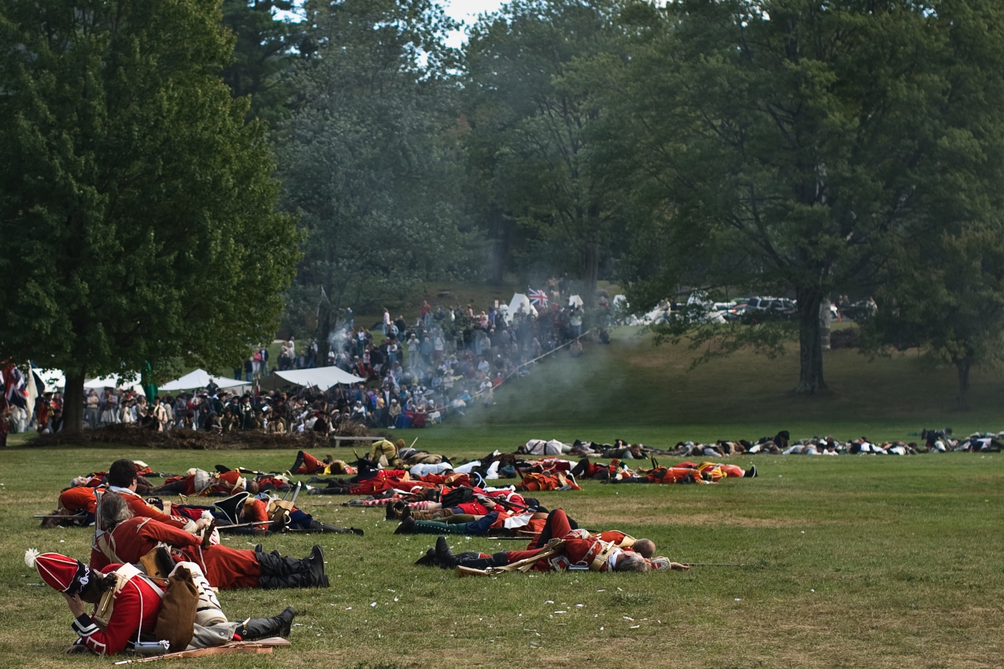 250th Anniversary of the Siege and Surrender of Fort William Henry